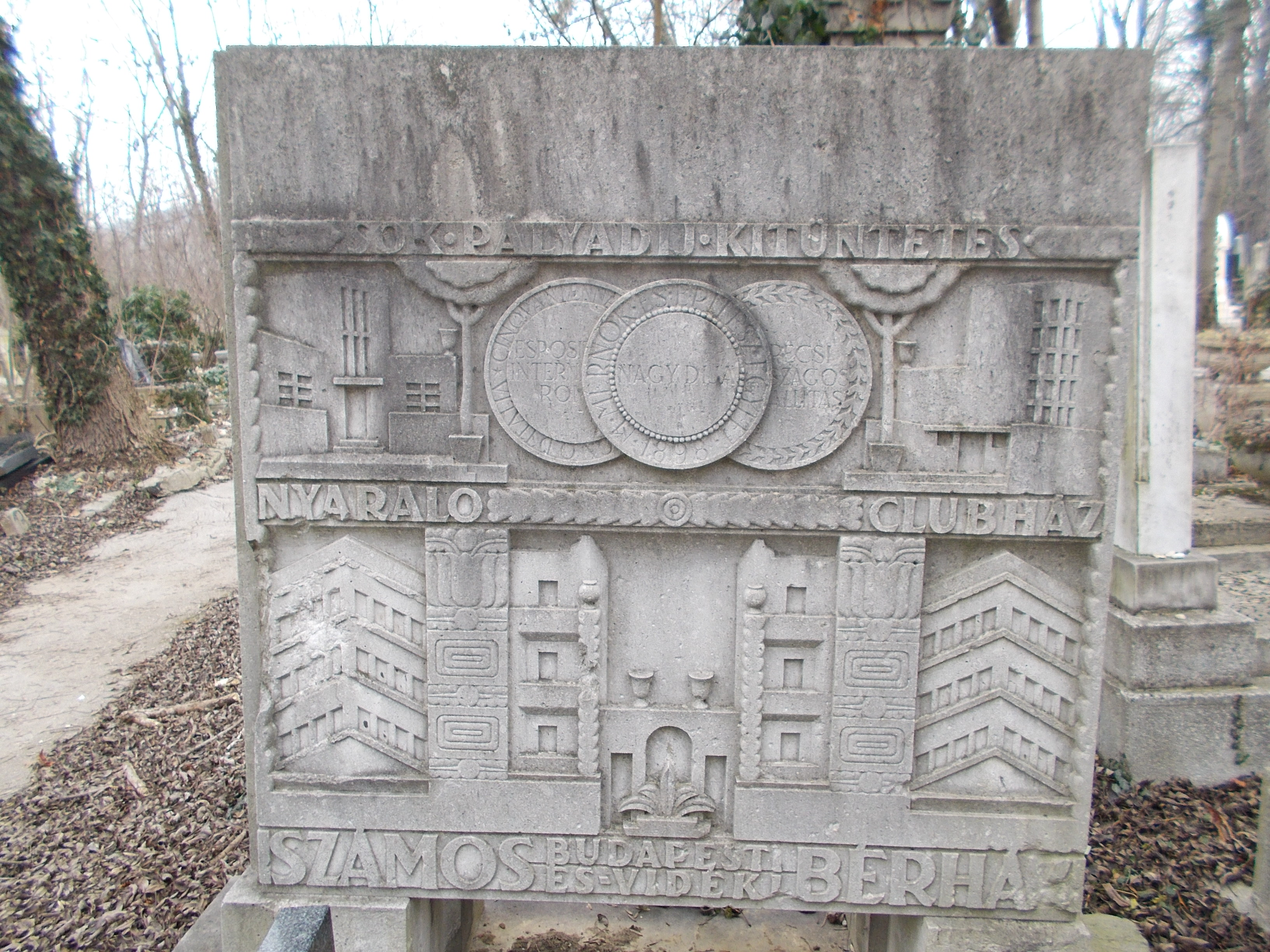 Farkasréti Jewish cemetery. József Vágó (architect) grave. - Márton Áron Square, Hegyvidék, Budapest.